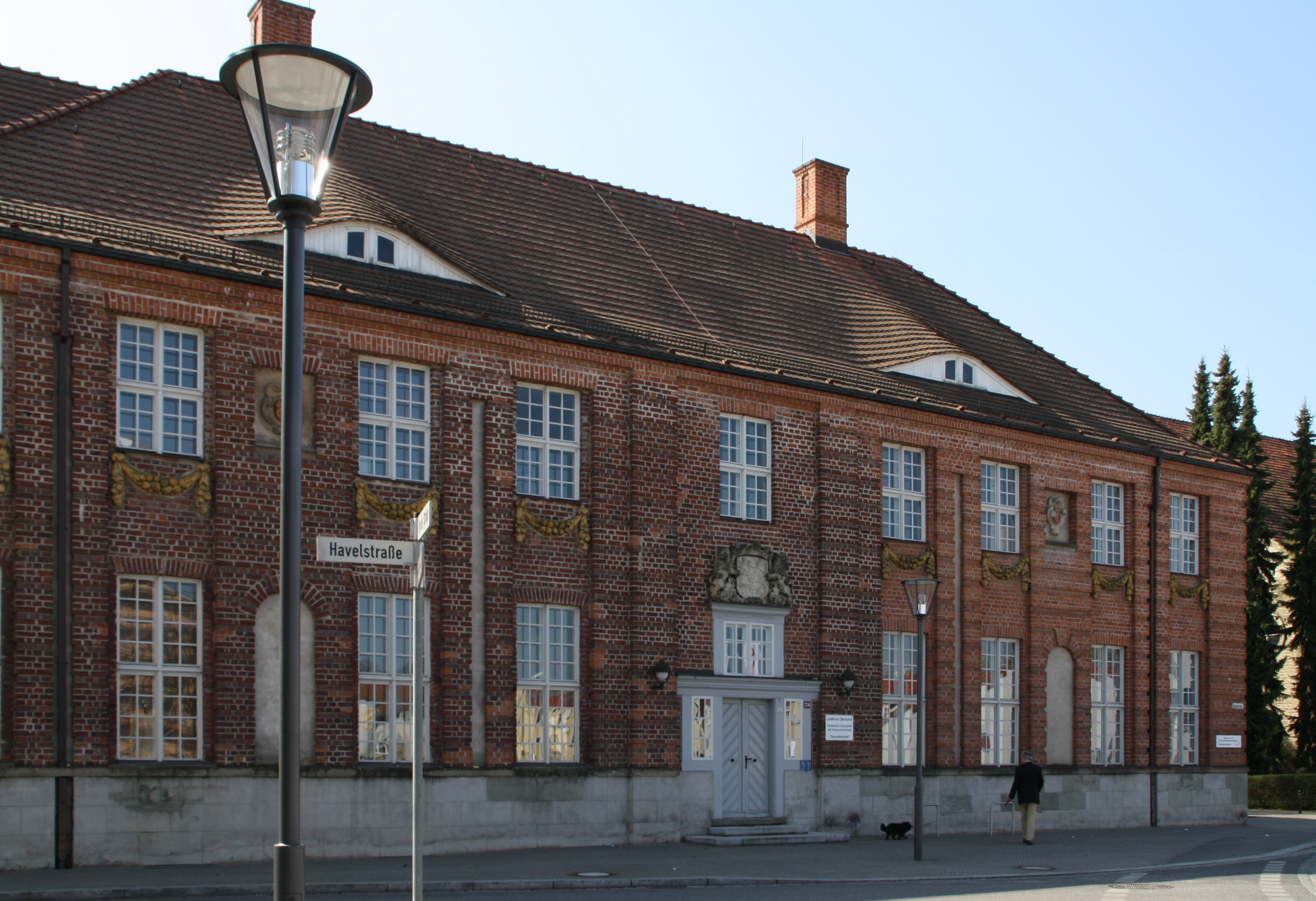 former orphanage in Oranienburg, Germany